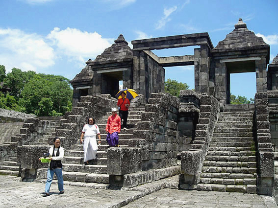 The gate of Ratu Boko Palace compound. Made from andesite stone. The gate is arranged in two row of three ascending gate. This was the second row of upper gate. The compound located on the hill and well protected by series of wall. It was probably a fortified palace or living quarter of the king. Dated back to 8th century Sailendra and Hindu Mataram era.